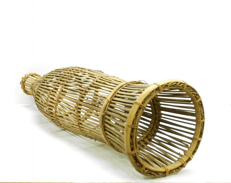 Trap. Unknown language: Bubu